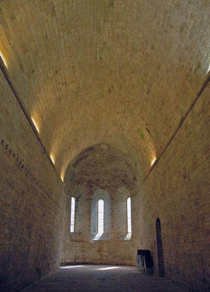 Saint-Michel de Grandmont priory. France